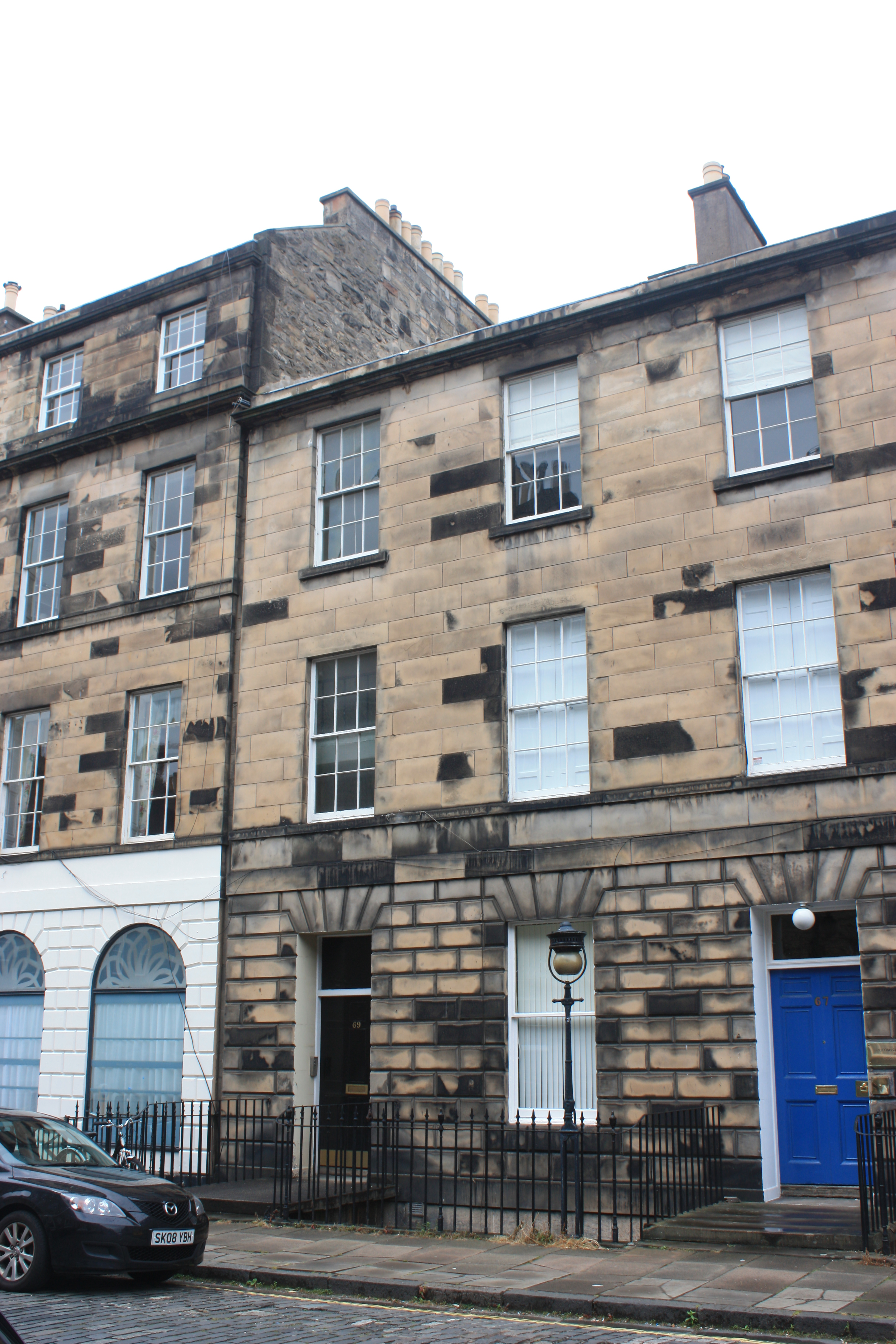 67, 69 Northumberland Street, Edinburgh